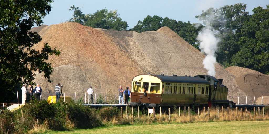 A special train at the little-used Norton Fitzwarren station on the West Somerset Railway. The autocoach (number 178) has been propelled from Bishops Lydeard by auto-fitted tank locomotive 5542. The pile of ballast in the background is recycled material from Network Rail that will be used either on the West Somerset Railway or resold as aggregates.